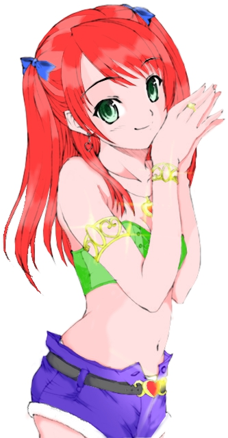 'Isn't Lolicon' imagem finalizada com fundo branco / final image white background Sim, novamente a mesma imagem. Porem dessa vez eu tirei o fundo que deixava as cores das joias muito claras, tambem tirei alguns dos efeito e um pouco das cores.... Eu havia tido que a imagem anterior estava meio inacabada, mas, dessa vez eu terminei, pretendo não voltar mais nessa imagem e começar outras! \o/ que inclusive eu já estou fazendo outra ;D